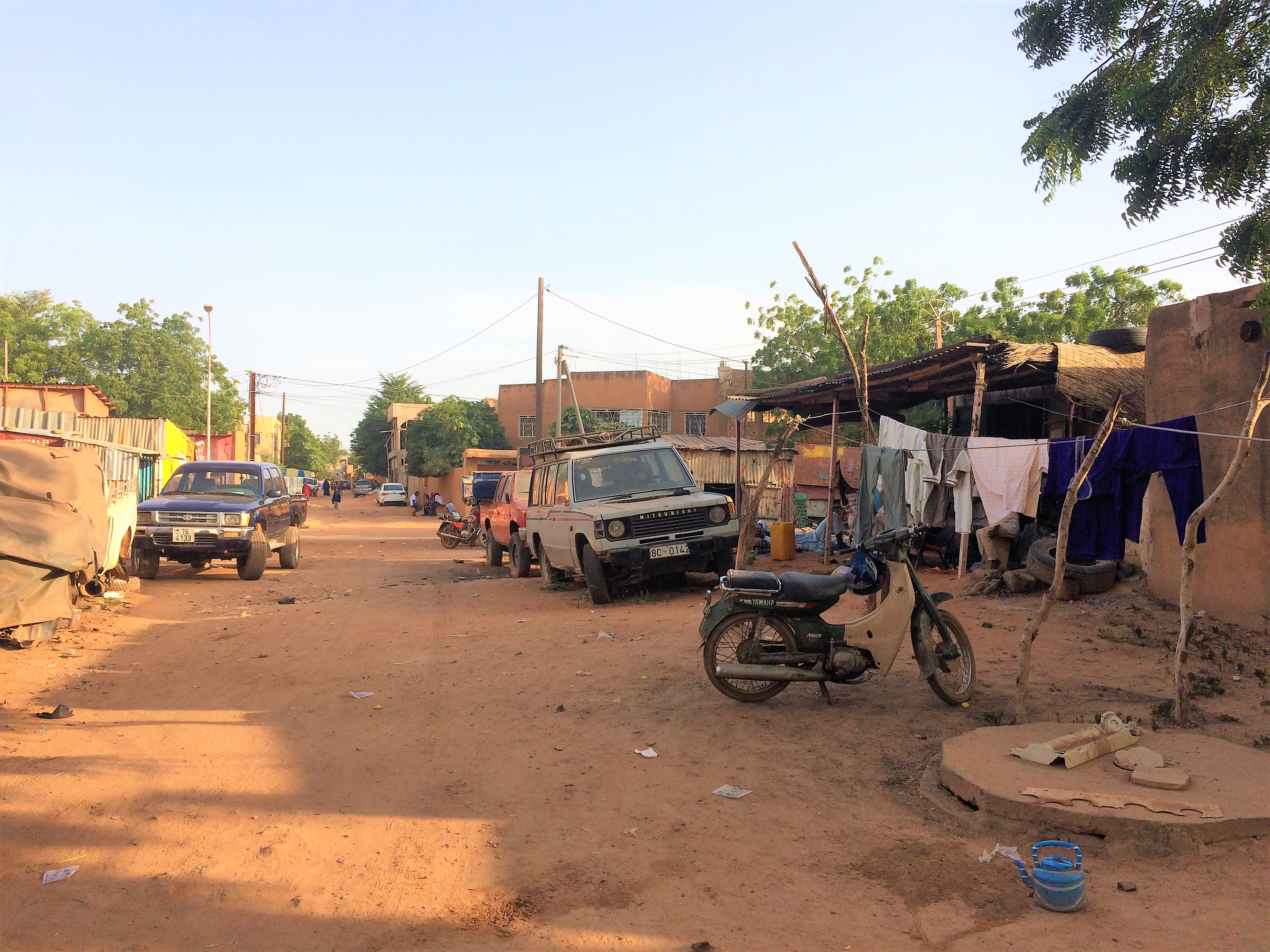 Street No. NM-38 in the 'Nouveau Marché' neighborhood in Niamey, Niger.